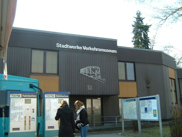 trafficmuseum entrance in Frankfurt-Schwanheim. The museum is at the end of the tramway and contains mostly old trams, busses etc. In the foreground are the ticket-machines of the Frankfort-Tramways. self-made on march 12th, 2006